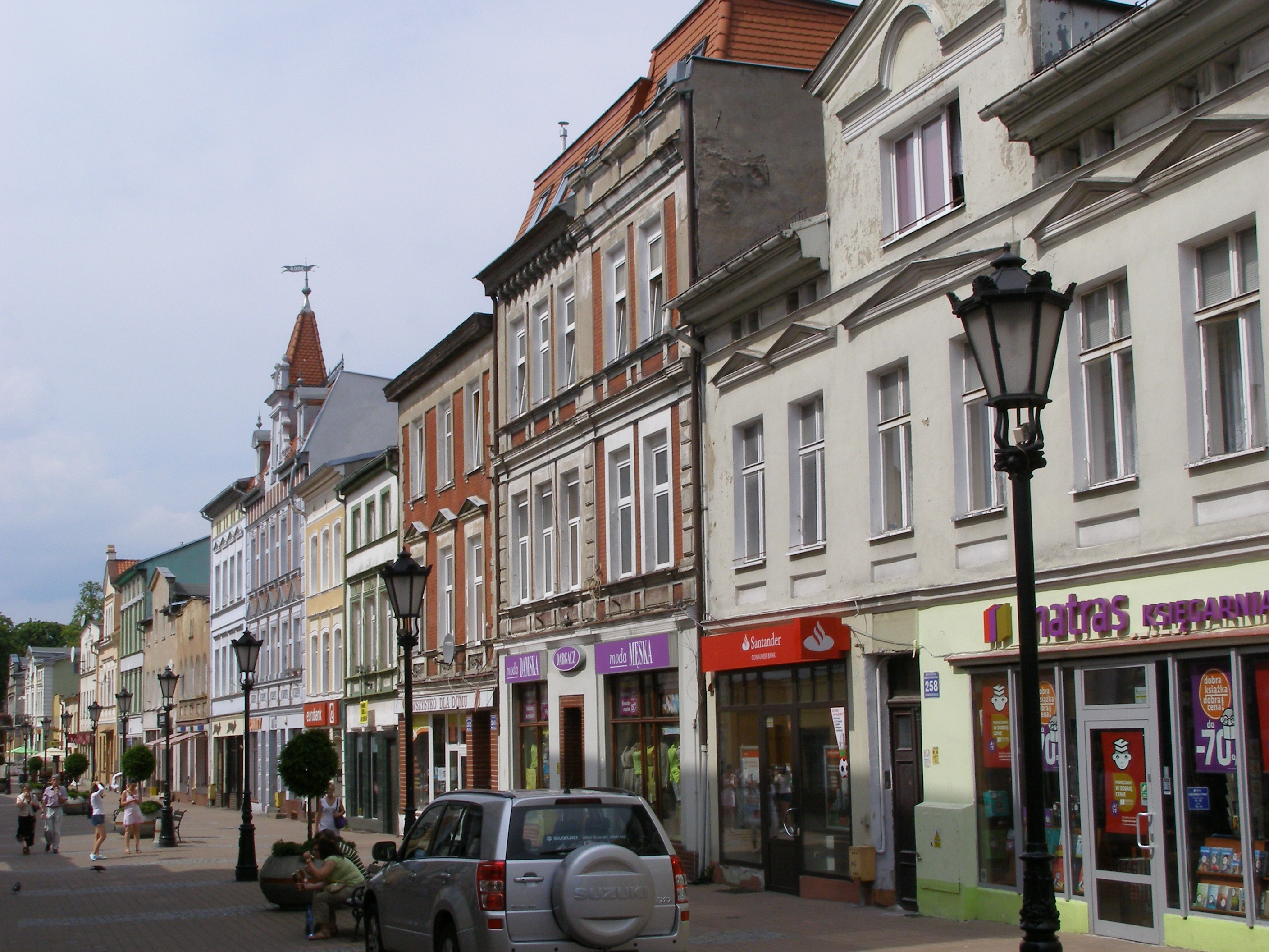 Wejherowo - houses in Wejhera sq.